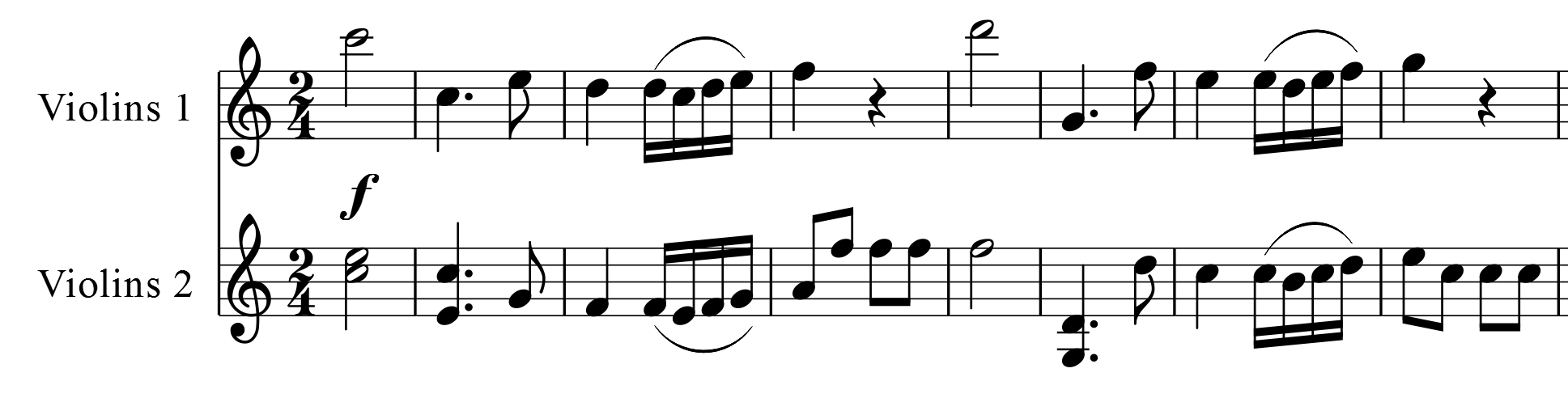 Joseph Haydn, Symphony No. 20, first movement, bar 1-8